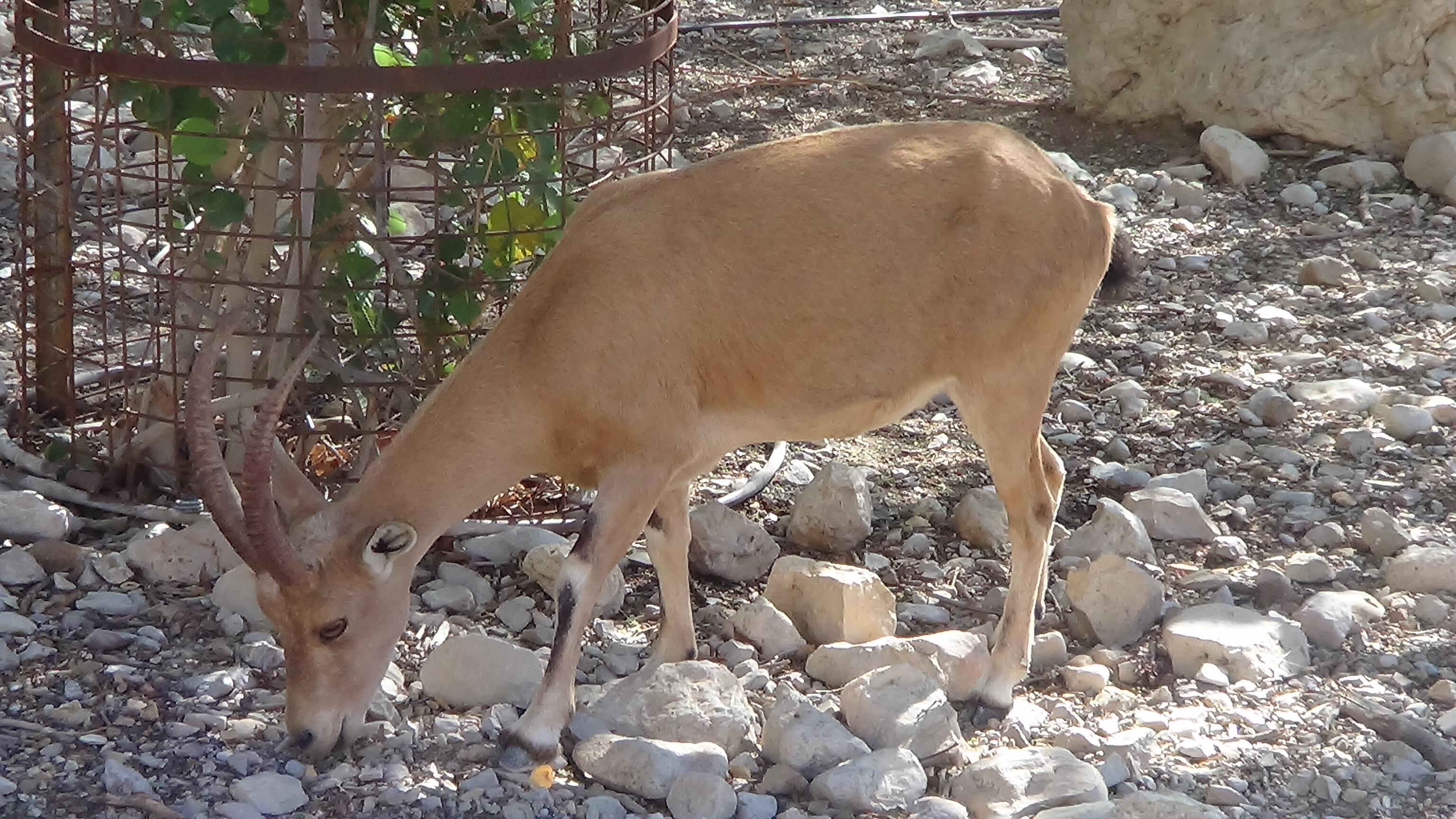 A female Nubian ibex in the Ein Gedi national reserve, Israel